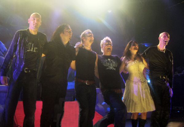 Within Temptation at London Astoria